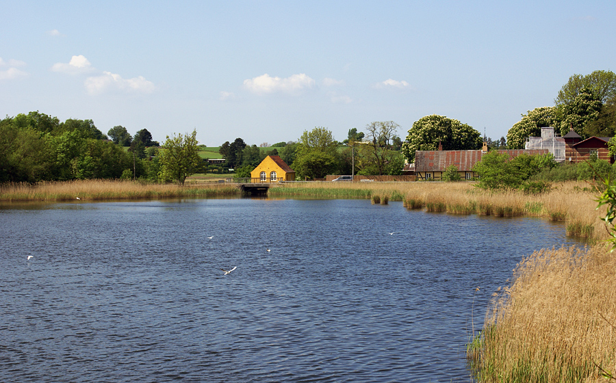 Kattinge Lake and in the background the dam and water driven mill industries Kattinge Værk, established 1754. Located in Denmark around 7 km vest of Roskilde on the border between Roskilde and Lejre Communes.